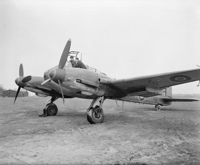 Mechanics look over the cockpit of Messerschmitt Me 410A-3 (Wk.Nr. 10259, RAF serial TF209) at No. 1426 (Enemy Aircraft) Flight at Collyweston, Northamptonshire (UK). This aircraft was formerly F6+OK of 2(F)./122. The crew, Fw. Hans Beyer and Uffz. Helmut Hein, got lost on the return leg to Perugia and landed by mistake at Monte Corvino, Italy, on 27 November 1943. It arrived for testing at the Royal Aircraft Establishment, Farnborough (UK), on 14 April 1944, and was also evaluated by the Aeroplane and Armament Experimental Establishment, Boscombe Down. TF209 flew with the Fighter Interception Unit at Wittering from August 1944 until March 1946 when it was transferred to No. 6 Maintenance Unit at Brize Norton.